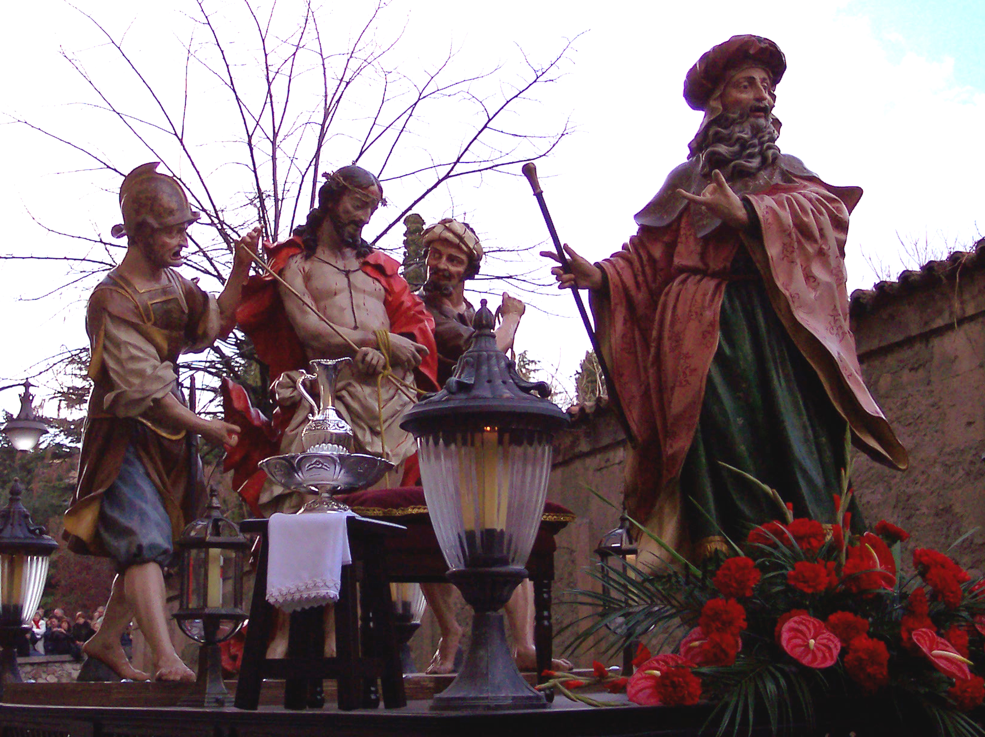 Float of the Ecce Homo, by Alejandro Carnicero, Salamanca (Spain)